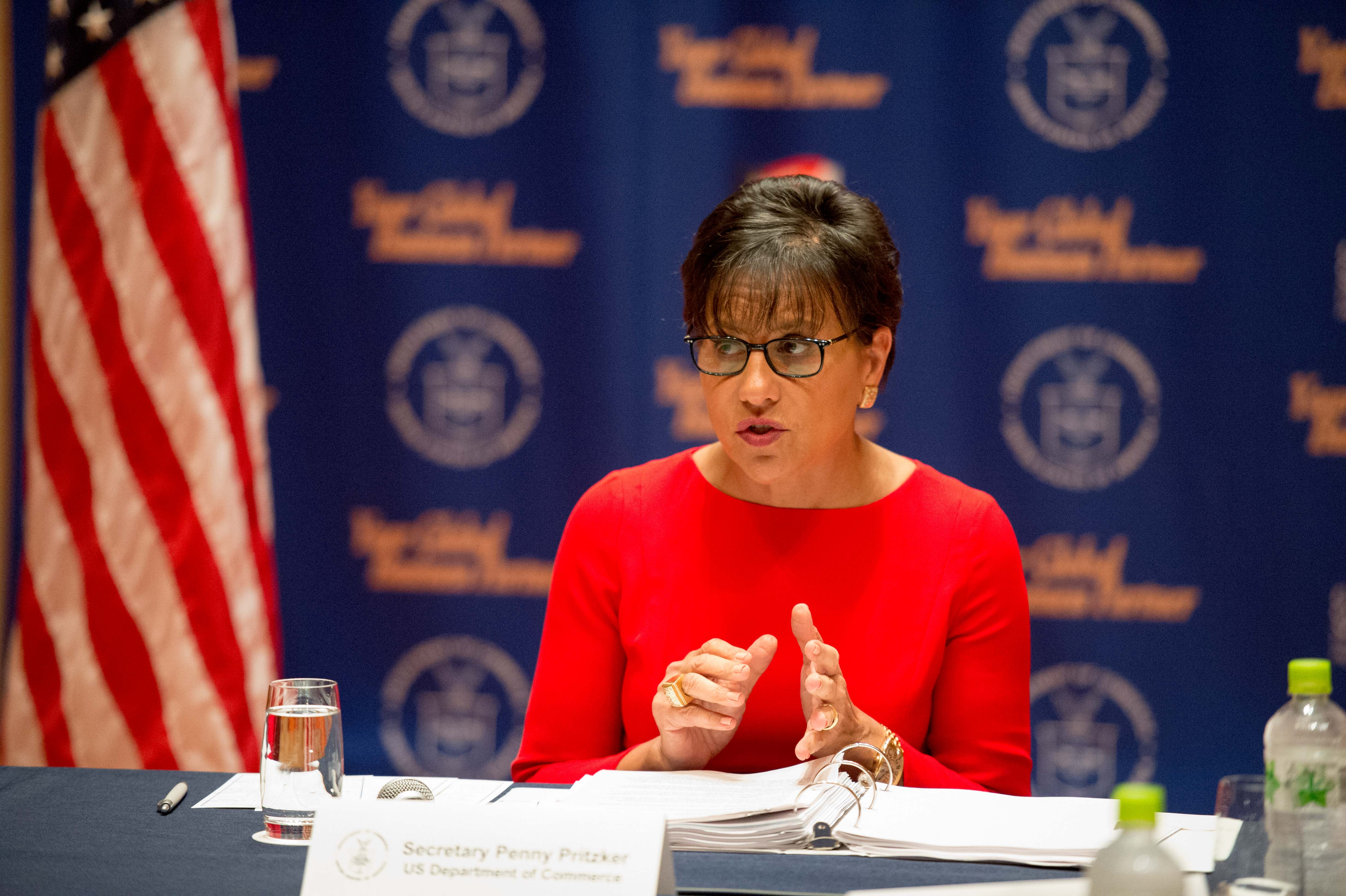 TOKYO, Japan (October 21, 2014) U.S. Secretary of Commerce Penny Pritzker addresses the international media in Tokyo. [State Department photo by William Ng/Public Domain]